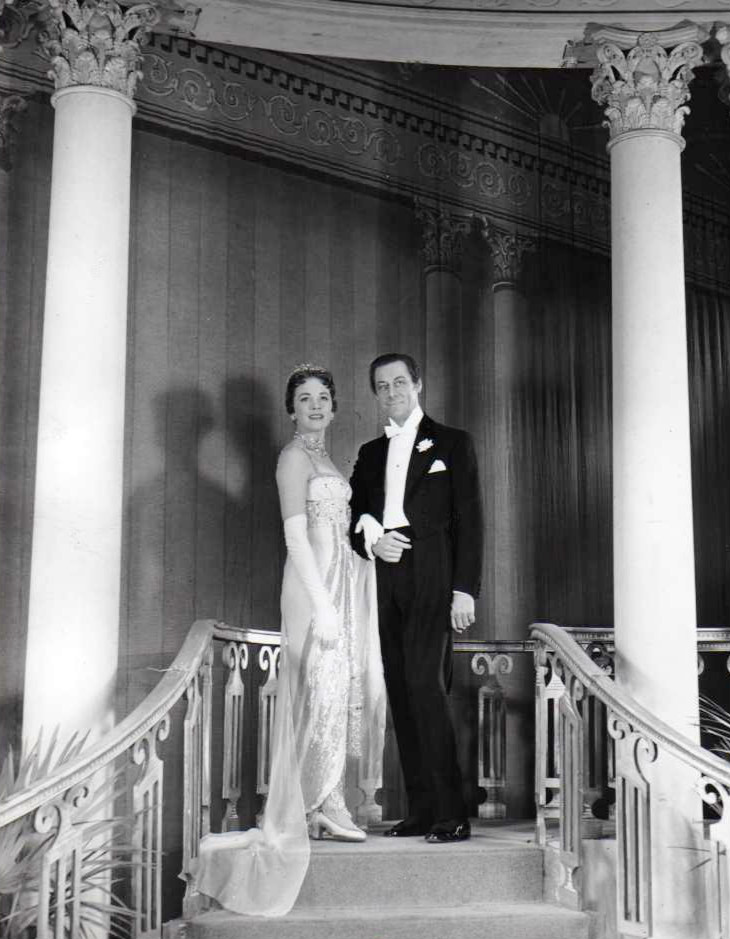 Photo of Julie Andrews and Rex Harrison from My Fair Lady. Eliza and Higgins at the Embassy Ball.